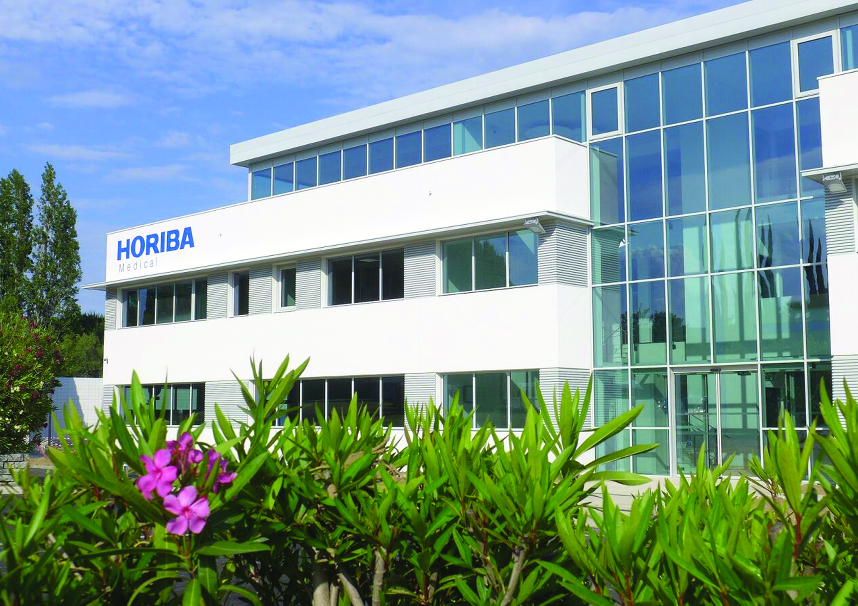 Masao Horiba Building – 10 july 2015 Innovation and Development Center